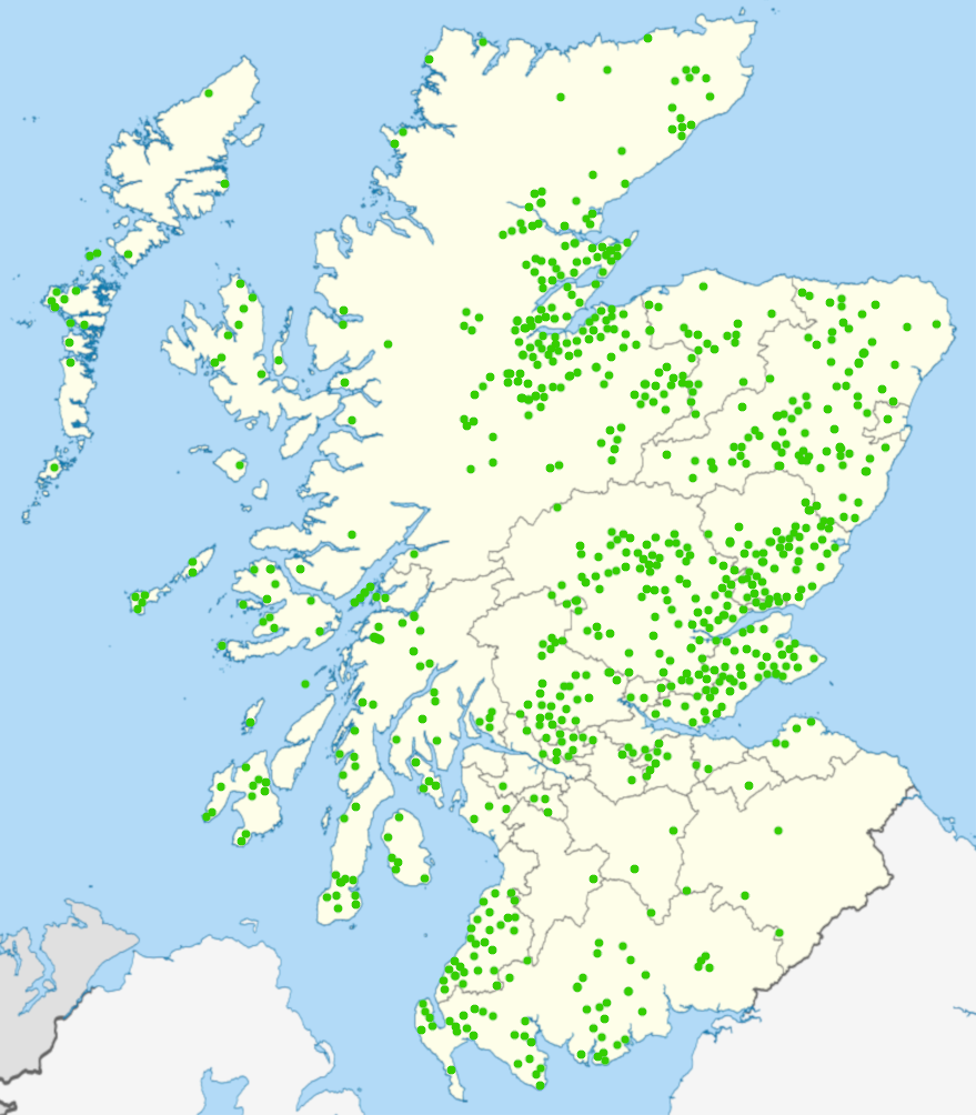 This map shows place names in Scotland that contain the element BAL- from the Scottish Gaelic 'baile' meaning home, farmstead, town or city. This place name data gives some indication of the extent of Medieval Gaelic settlement in Scotland. Gàidhlig: Tha am mapa seo a' sealltainn nan ainmean-àite ann an Alba leis an ealamaid BAL- bho 'baile'. Tha na dàta seo a' toirt beachd dhuinn air dè cho farsaing 's a bha tuineachadh nan Gàidheal aig àrd an neart ann an Alba.